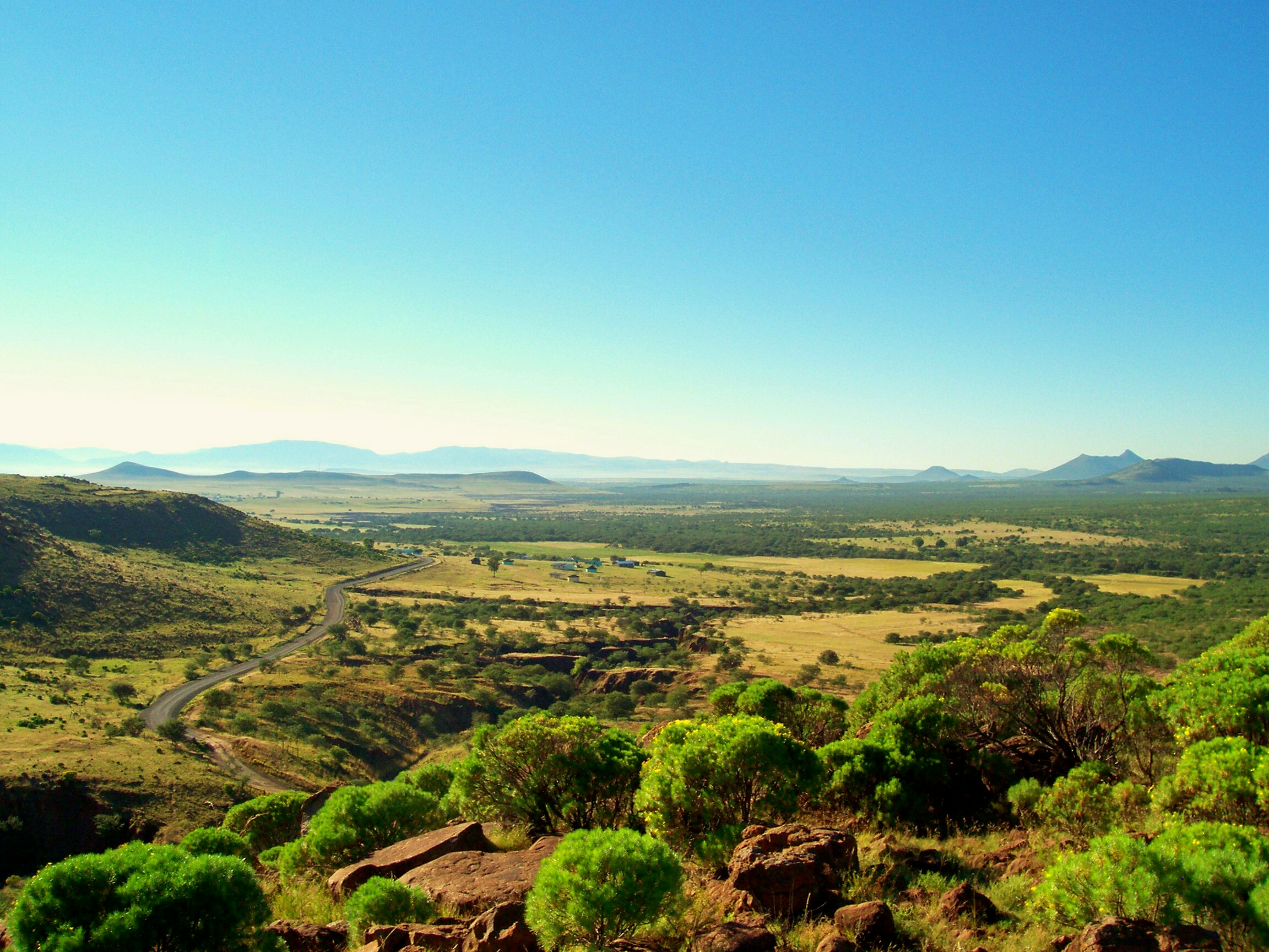 View from the top of a rocky hill near the town of Bolotwa, South Africa, April 11, 2007